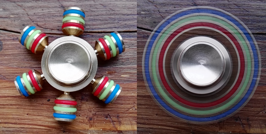 A Fidget Spinner with 6 Blades both Stationary and Spinning